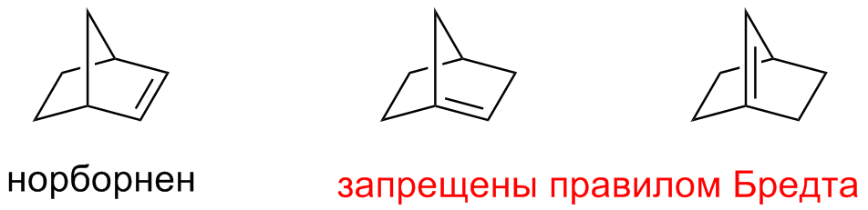 Bredt's Rule Ru